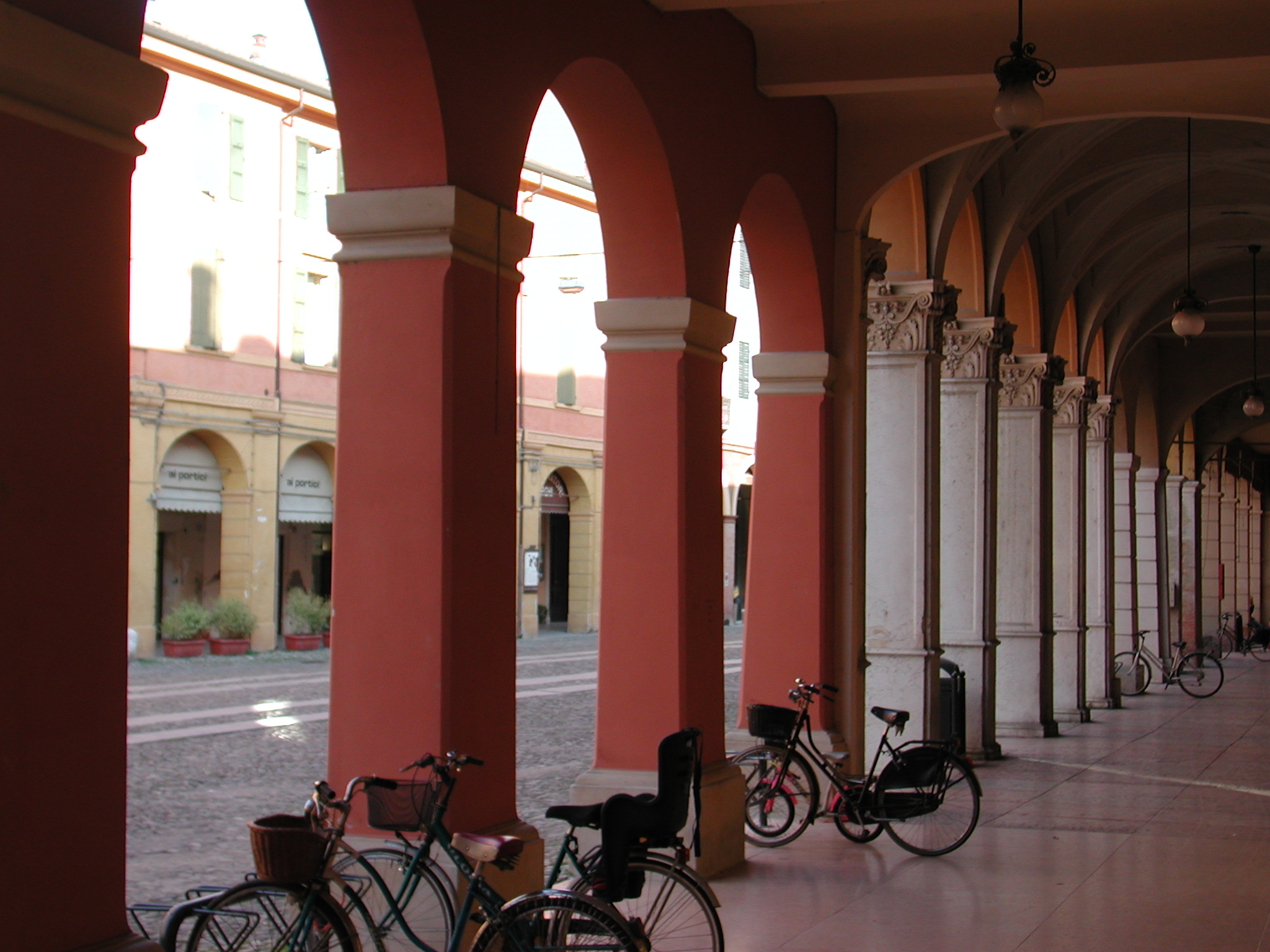 Correggio (Italy) a town near Reggio Emilia, Italy